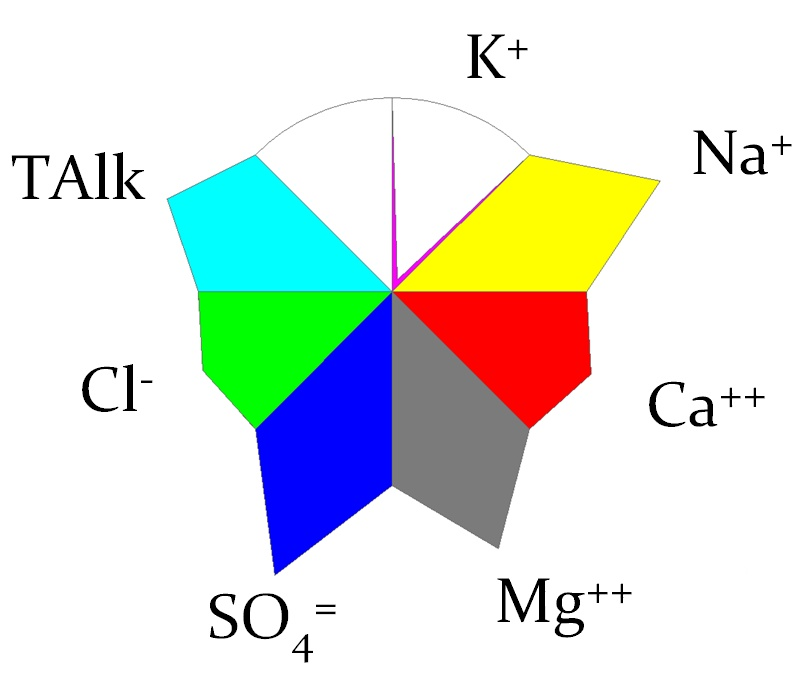 A Maucha ionic diagram, showing the ionic composition of a water sample. The carbonate and bicarbonate ions at the top left are combined as total alkalinity.